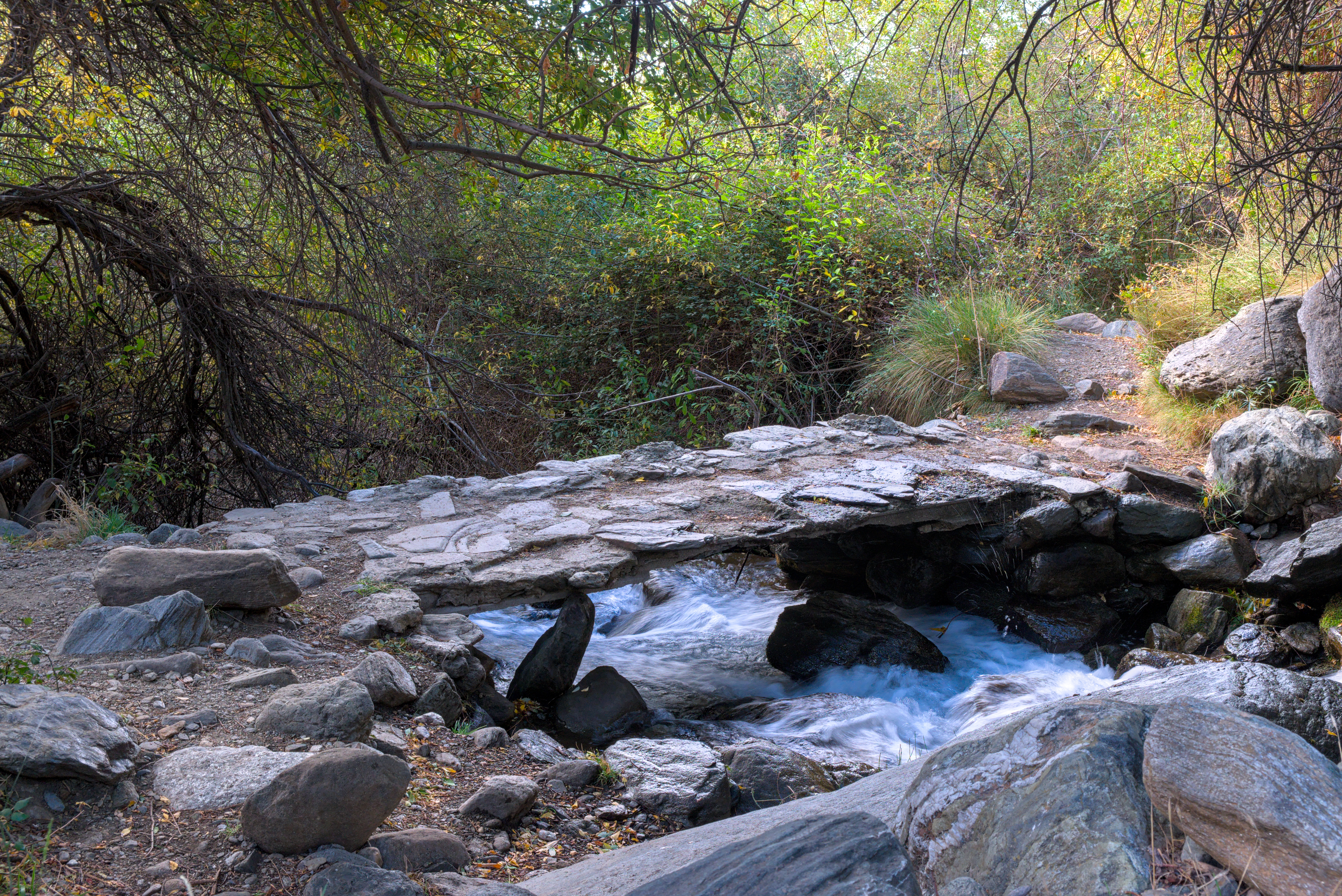 Bridge over the Rio Veleta stream along Sendero Acequias del Poqueira, Sierra Nevada National Park This is a photography of a Special Area of Conservation in Spain with the ID: ES6140004. Natura2000 entry, EEA entry